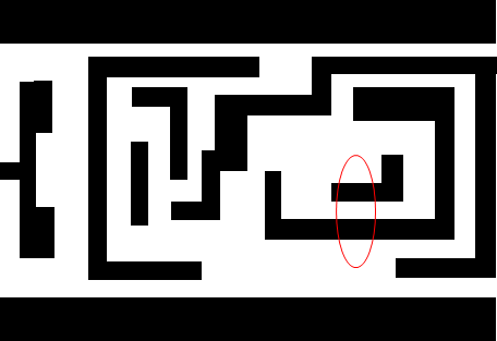 A 2D layout targeted for EUV use has opportunities to include two-bar locations, which are sensitive to 3D mask effects, including shadowing. These effects lead to the two lines focusing differently.